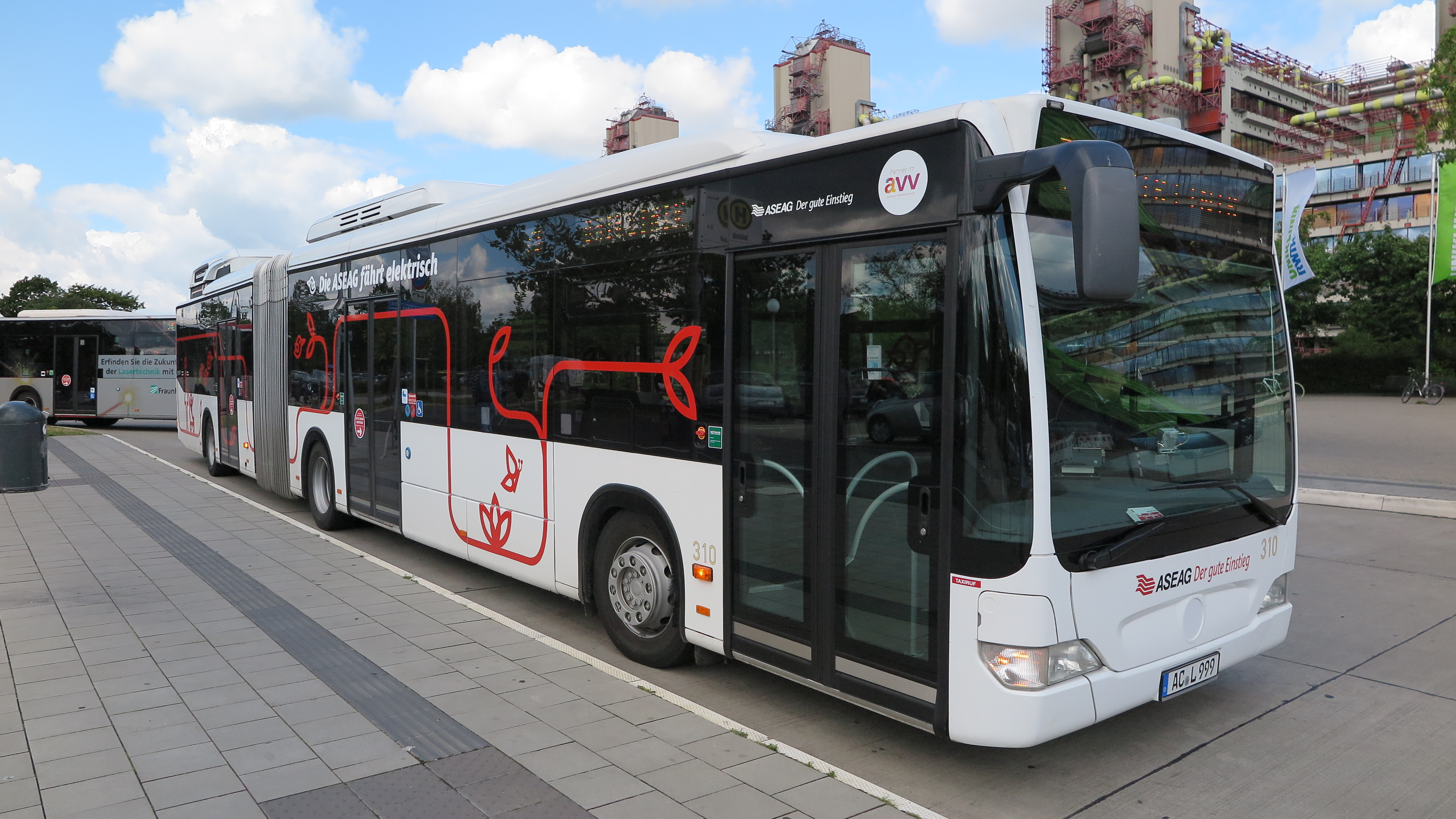 The first electromobil used articulated bus in regular service of ASEAG as bus line 73 (University Hospital – Aachen-Rothe Erde station) at the bus stop H.4 University Hospital Aachen. The Mercedes-Benz Citaro articulated bus was rebuilt as part of the EU project Civitas (Cleaner and better transport in cities) by ASEAG and their partners from a hybrid electric bus to a battery electric bus.